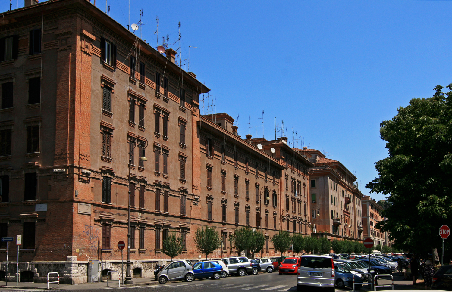 Via Giovanni Branca, Rome.